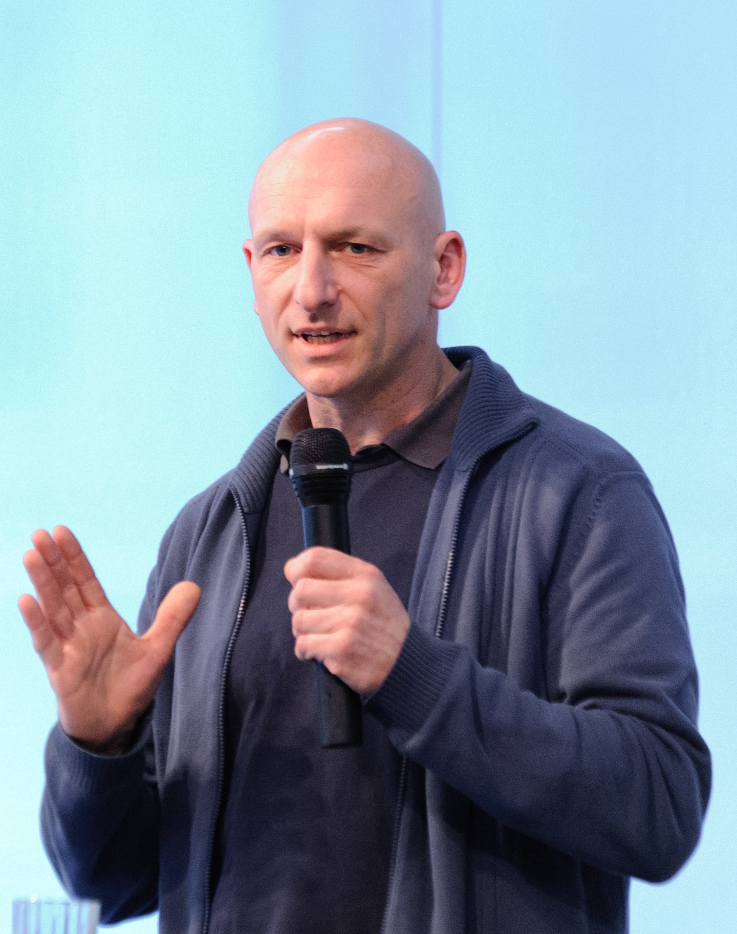 Michael Gruber (born 1965), German painter, installation artist and sculptor. (Foto: Stephan Röhl)